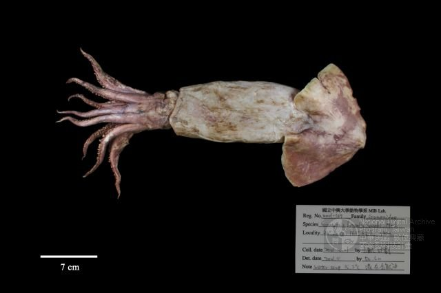 Gonatopsis borealis museum specimen from 國立中興大學生命科學系 National Chung Hsing University Department of Life Science